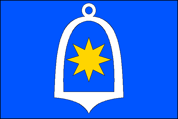 Municipal flag of Žernov village, Náchod District, Czech Republic.